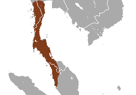 Range map for Robinson's banded langur in Malaysia, Thailand and Burma